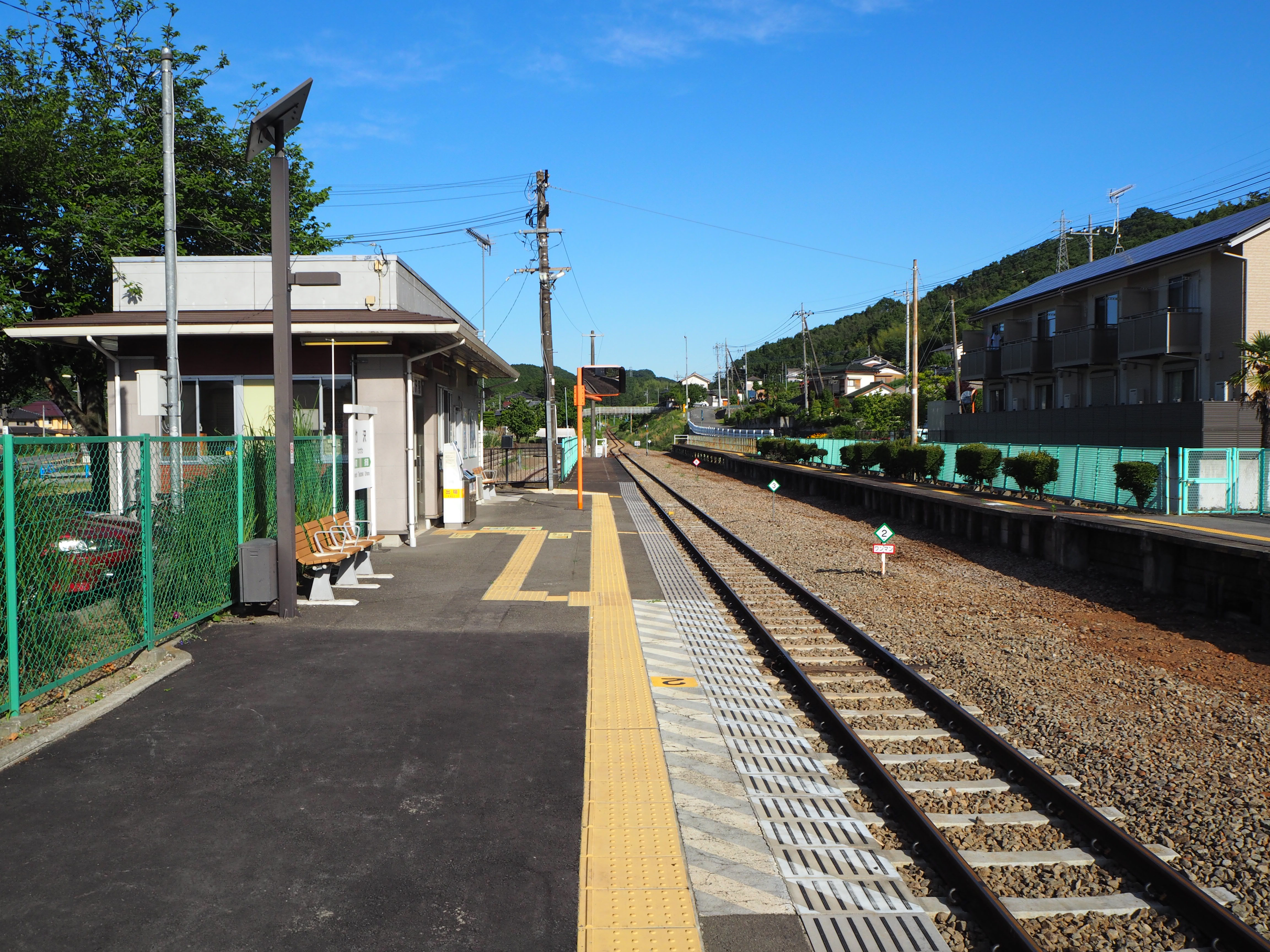 The platform at Takezawa Station on the Hachiko Line, looking west, with the decommissioned former eastbound platform on the right